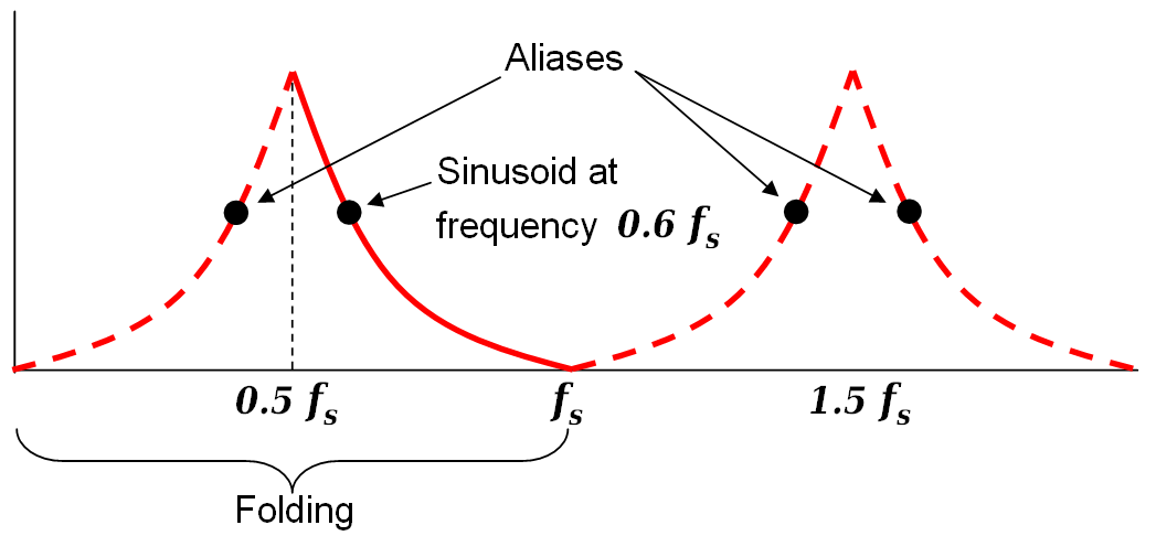 Graph of frequency aliasing, showing folding frequency and periodicity.